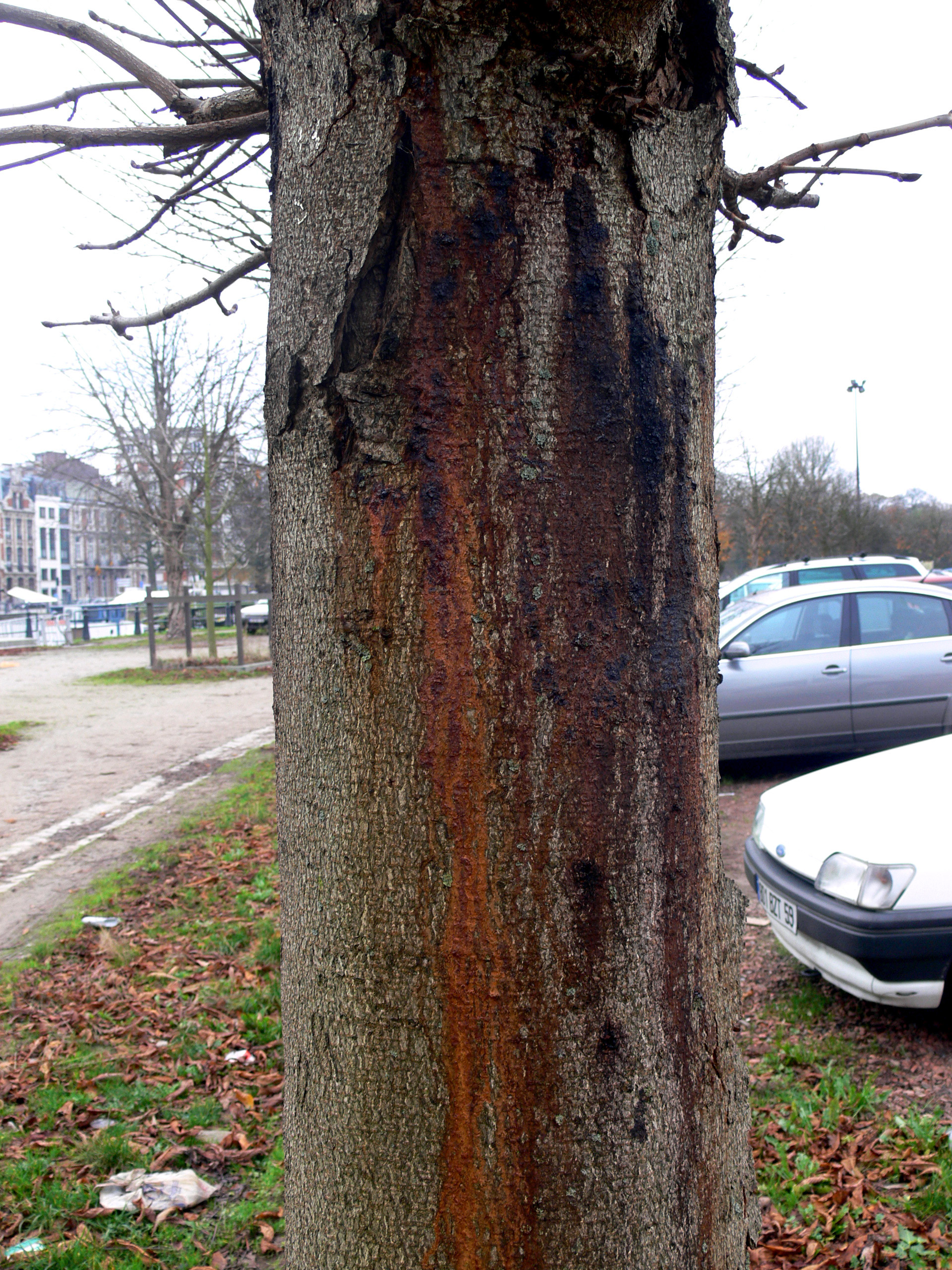 horse-chestnust being killed by a bacteria (Pseudomonas syringae) are often young (20-30 years)and not well planted. En 2006, on ignore encore les modes de contamination.